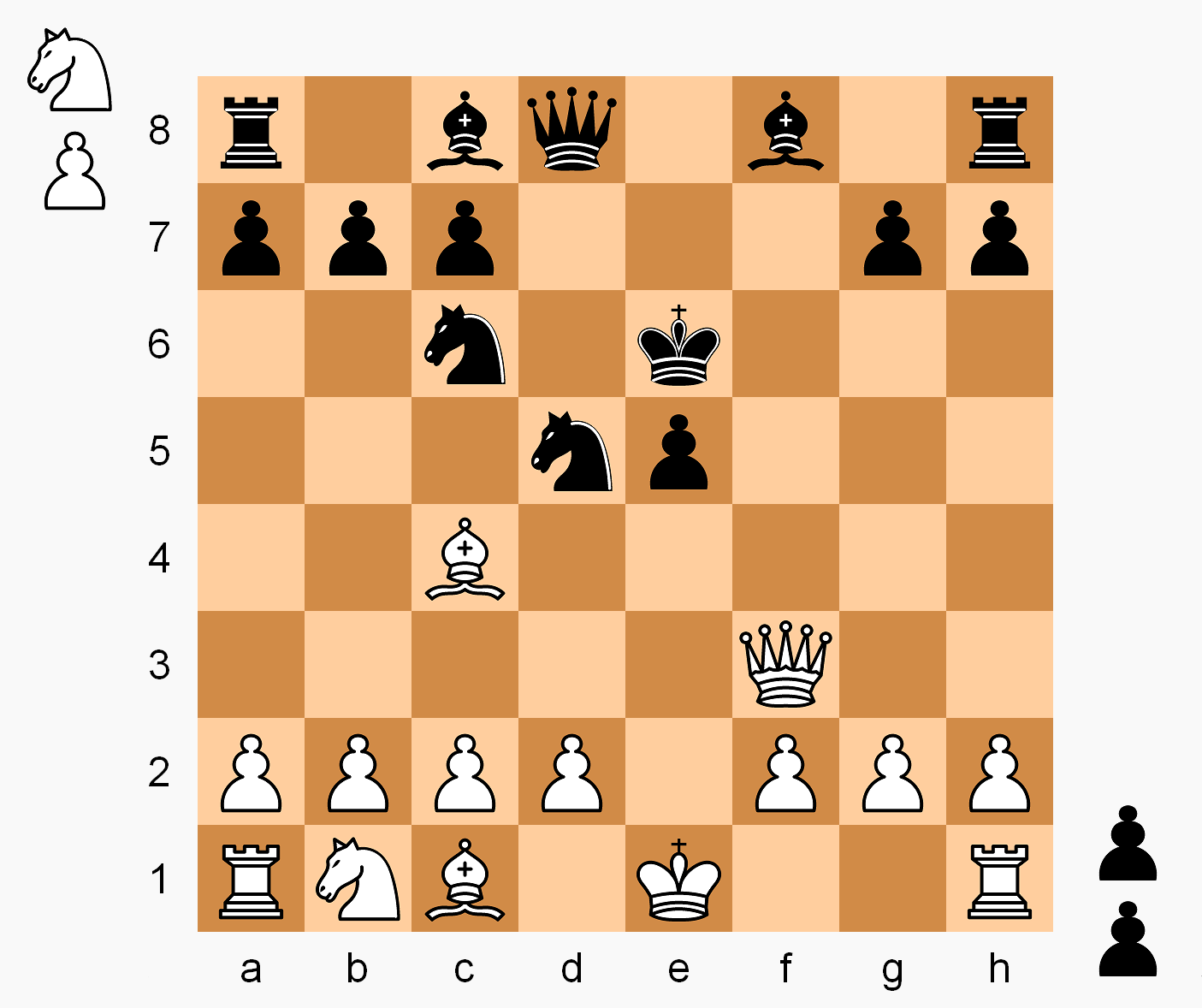 Hostage Chess, Fried Liver Attack. Made in PAINT using ProjChess colors and the great chess icons fashioned by David Benbennick (User:Dbenbenn).